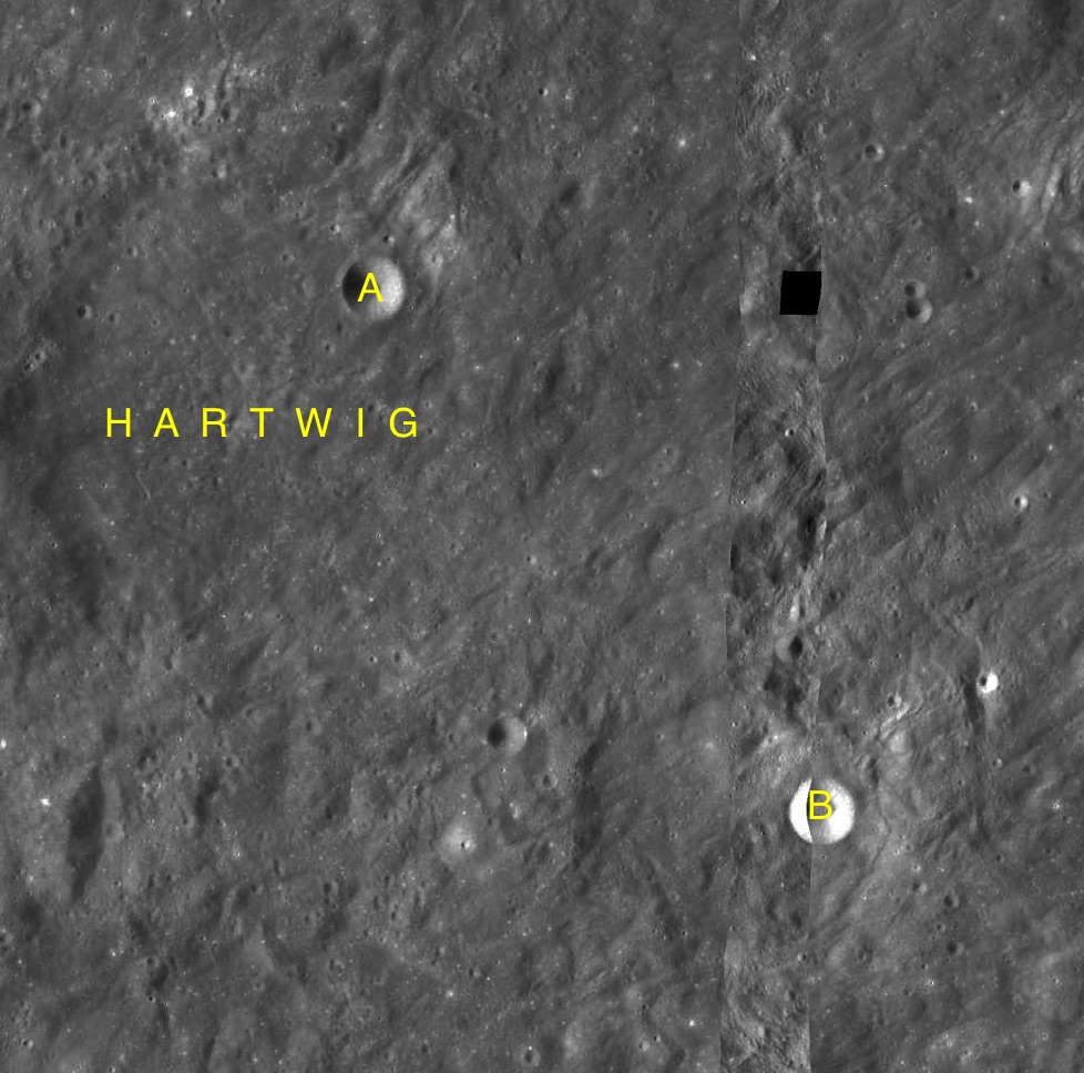 Part of the chart LAC-73